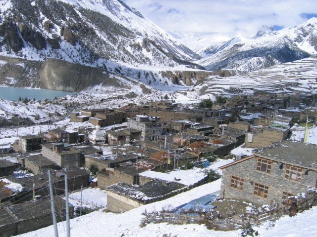 Manang, Nepal